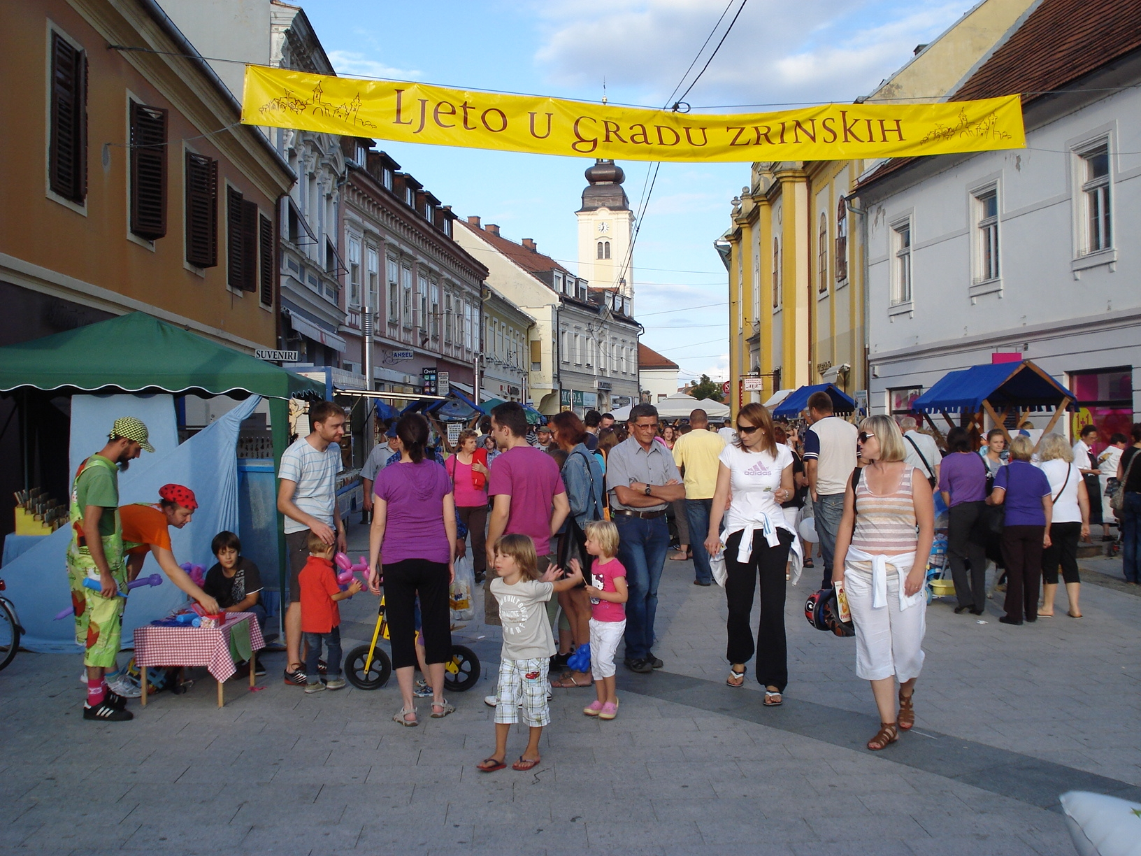 Porcijunkulovo, Catholic feast of Our Lady of the Angels and local festival in Čakovec, Croatia - the crowd on main streetHrvatski: Porcijunkulovo, katolički blagdan Gospe od Anđela i lokalno proščenje u Čakovcu, Hrvatska - mnoštvo u glavnoj ulici